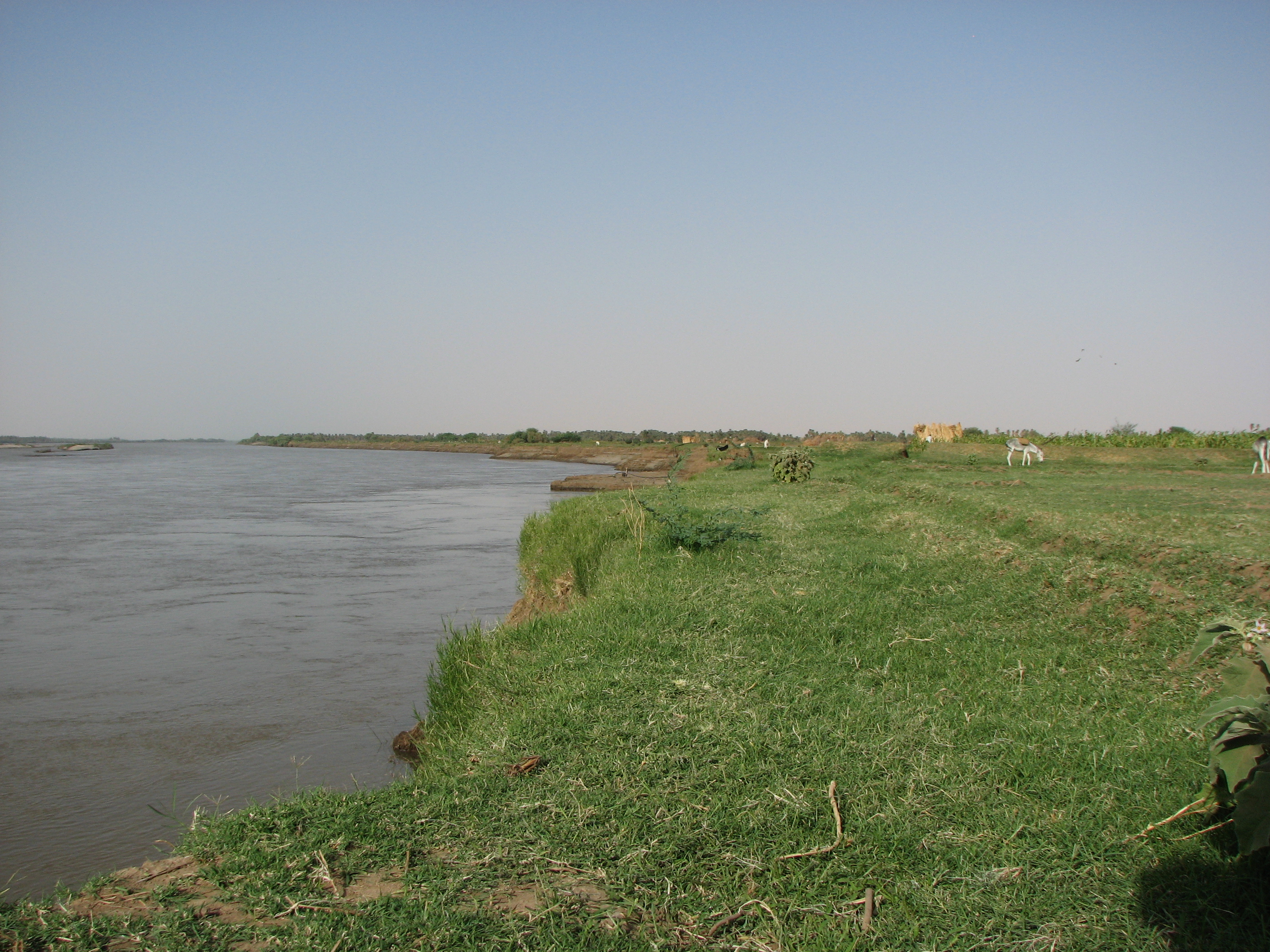 Large nile island in Alshemalya